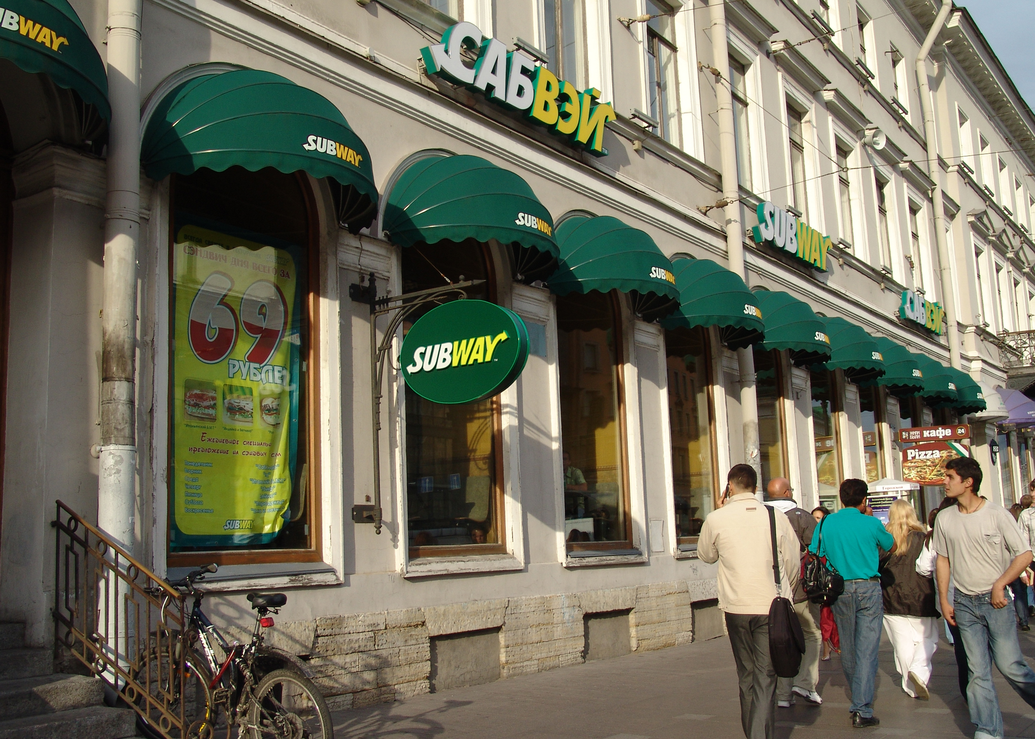 Subway restaurant in St. Petersburg, Russia at 20 Nevsky Prospekt.